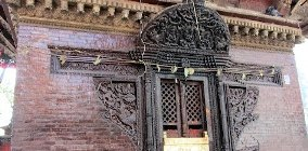 Gyaneshwor Mahadev temple entrace photo